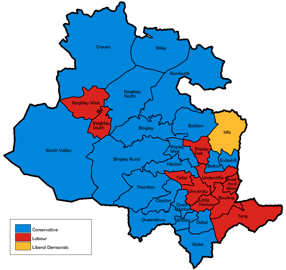 Ward map of Bradford Council with political colouring for the 1992 local election.